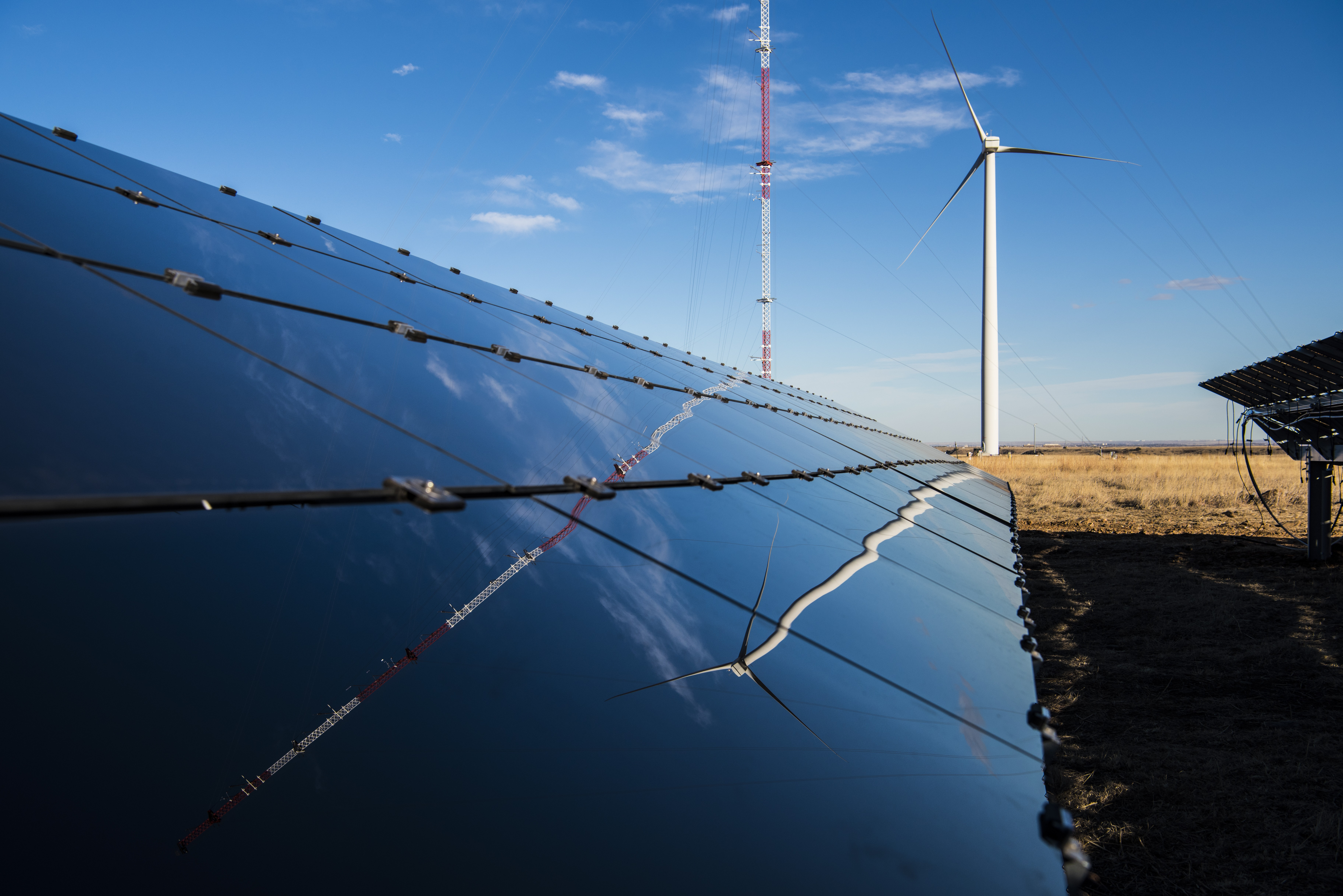 CdTe photovoltaic panels photographed on an angle extending to center frame. A wind turbine stands in the distance.